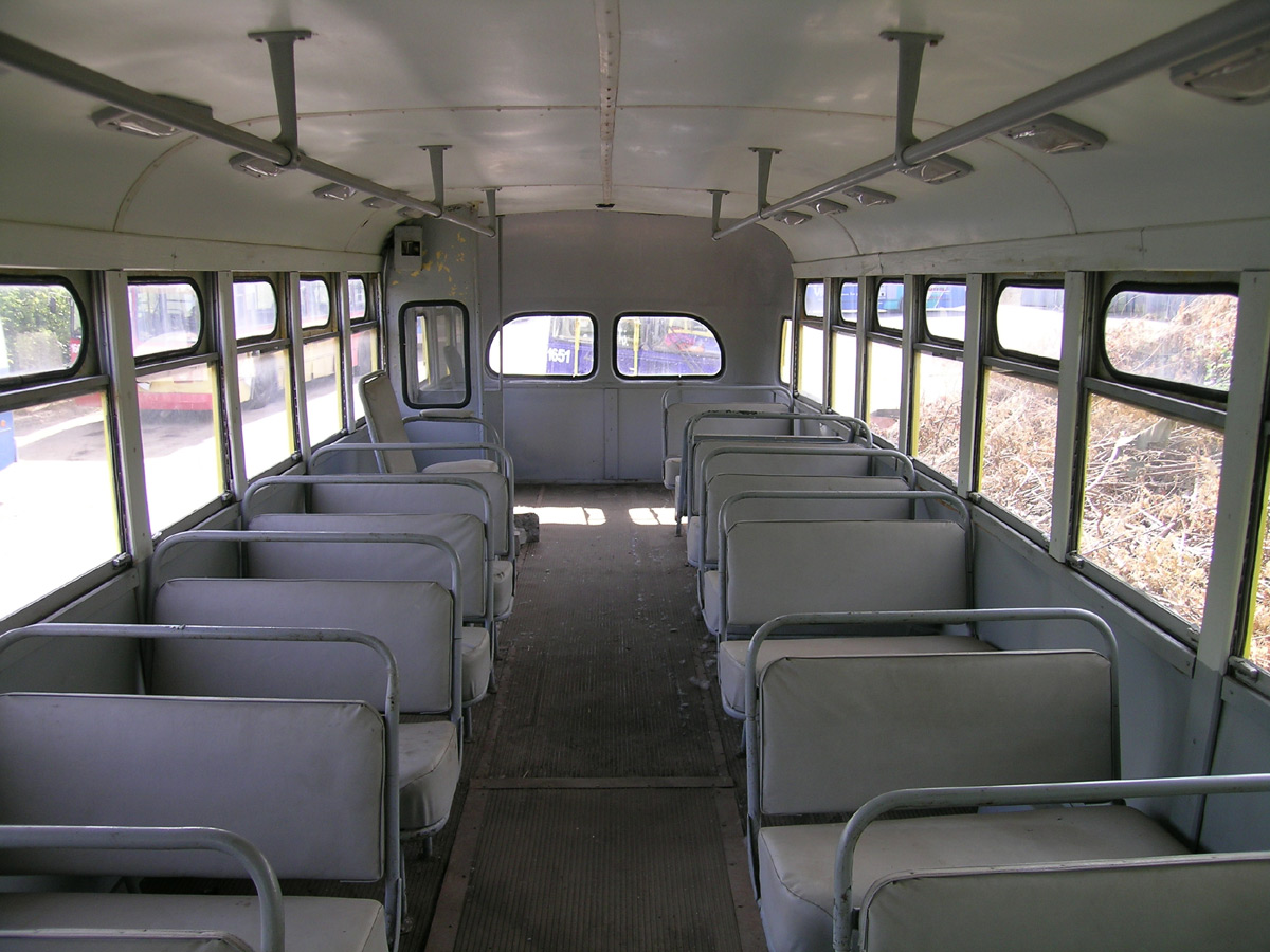 The view to rear end of the passenger compartment of MTB-82 trolleybus